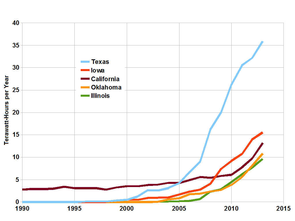 Trends of wind electrical generation in the top five states, 1990-2013 (US EIA data)